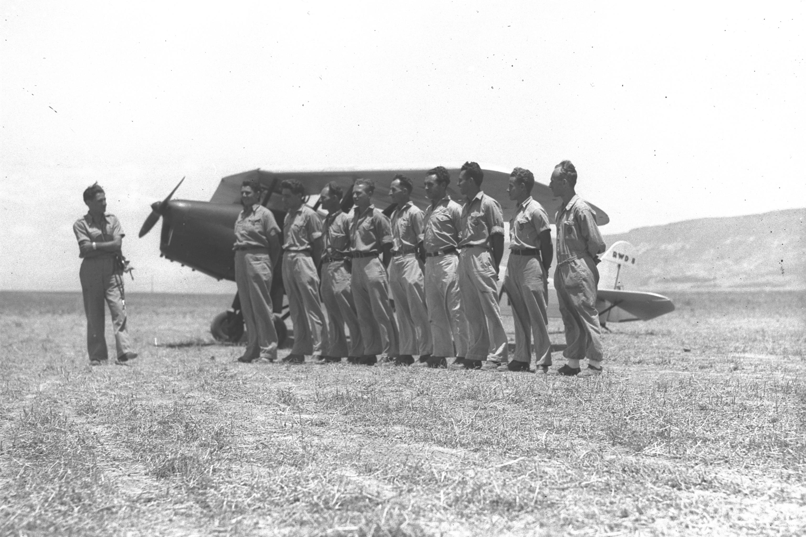 Hagana members undergoing the first flying training course organized by Aviron Company in the Jordan Valley near Kibbutz Afikim, with their Chief Imanuel Tzur. חברי הגנה משתתפים בקורס הטייס הראשון שאורגן בידיי חברת אווירון בבקעת הירדן, ליד קיבוץ אפיקים. Photo: Zoltan Kluger (1896–1977) Alternative names Qlwger, Zwlṭan; Zolṭan Ḳluger; Kluger, Z.; W. von Szigethy; W. Von SzighethyDescriptionHungarian-Israeli photographerDate of birth/death 8 February 1896 16 May 1977Location of birth/death Kecskemét ManhattanAuthority control : Q7035699 VIAF: 19504001 ISNI: 0000 0000 6686 1613 ULAN: 500483392 LCCN: no2008144265 Open Library: OL6614008A WorldCat creator QS:P170,Q7035699 , 06/10/1938